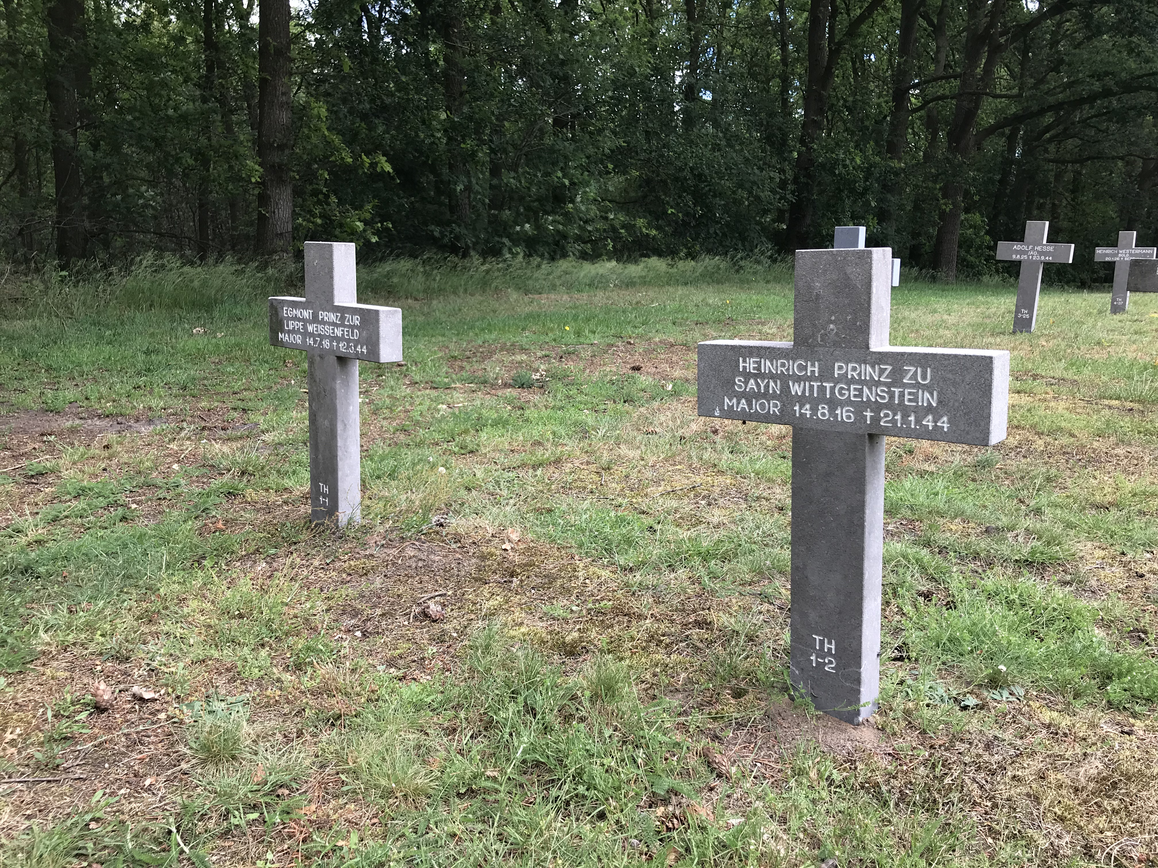 Graves of Sayn Wittgenstein and Lippe Weissenfeld in TH-1-1 and TH-1-2